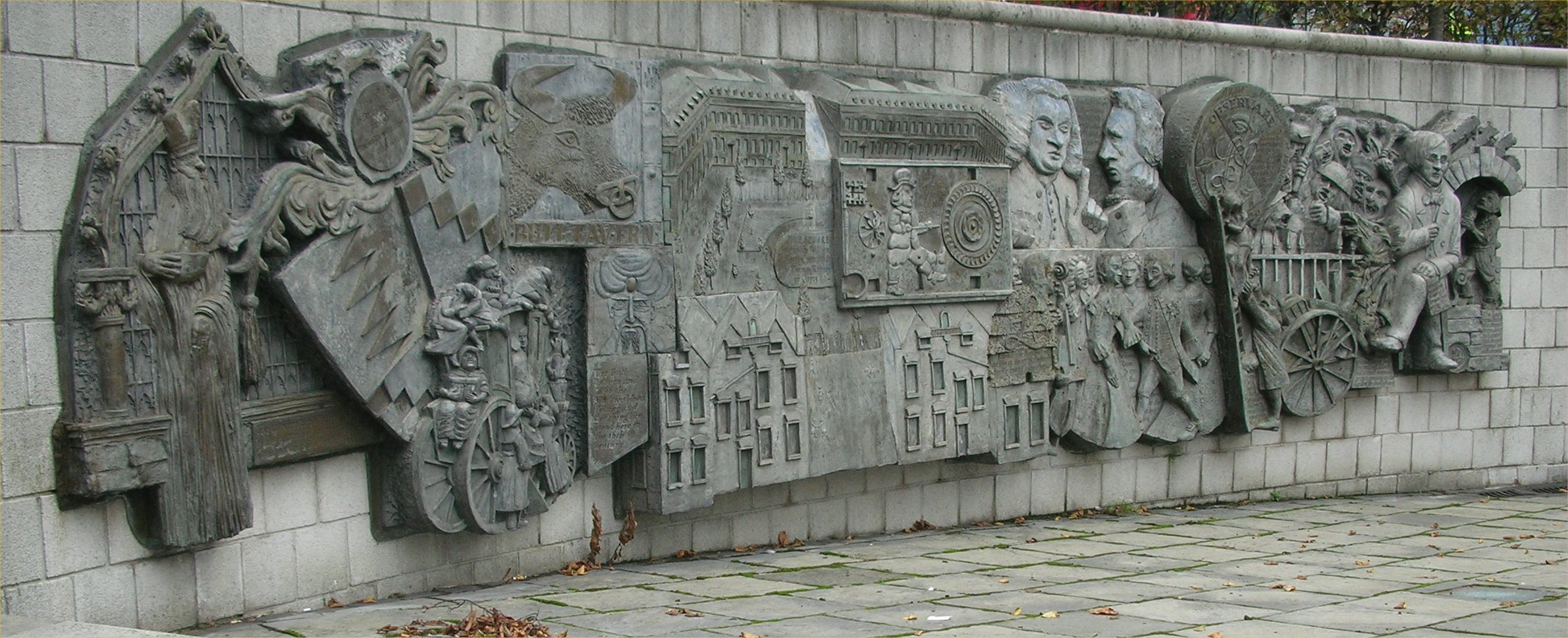 The sculpture Old Square by Kenneth Budd, 1967, cast brass and iron on fibreglass, 152 cm x 793 cm, in Old Square, Birmingham, England. Moved from the demolished Old Square subway and re-mounted in the new Old Square. Photographed by me 16 October 2006. Oosoom